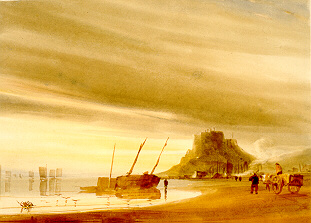 Painting from Jersey.